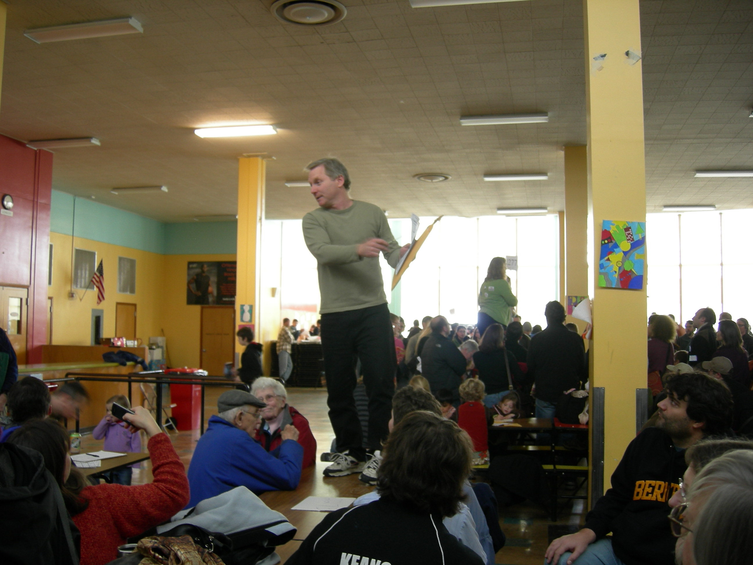 Part of the 2008 Washington State Democratic Party Caucus. This is at the Eckstein Middle School, Seattle, Washington. The precincts meeting there were part of the 46th Legislative District. Each precinct caucuses separately. Here, precincts caucus in the school lunchroom.